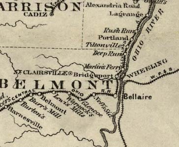 This is the Belmont County and Wheeling West Virginia portion of an 1873 railroad map of the state of Ohio on file in the Library of Congress